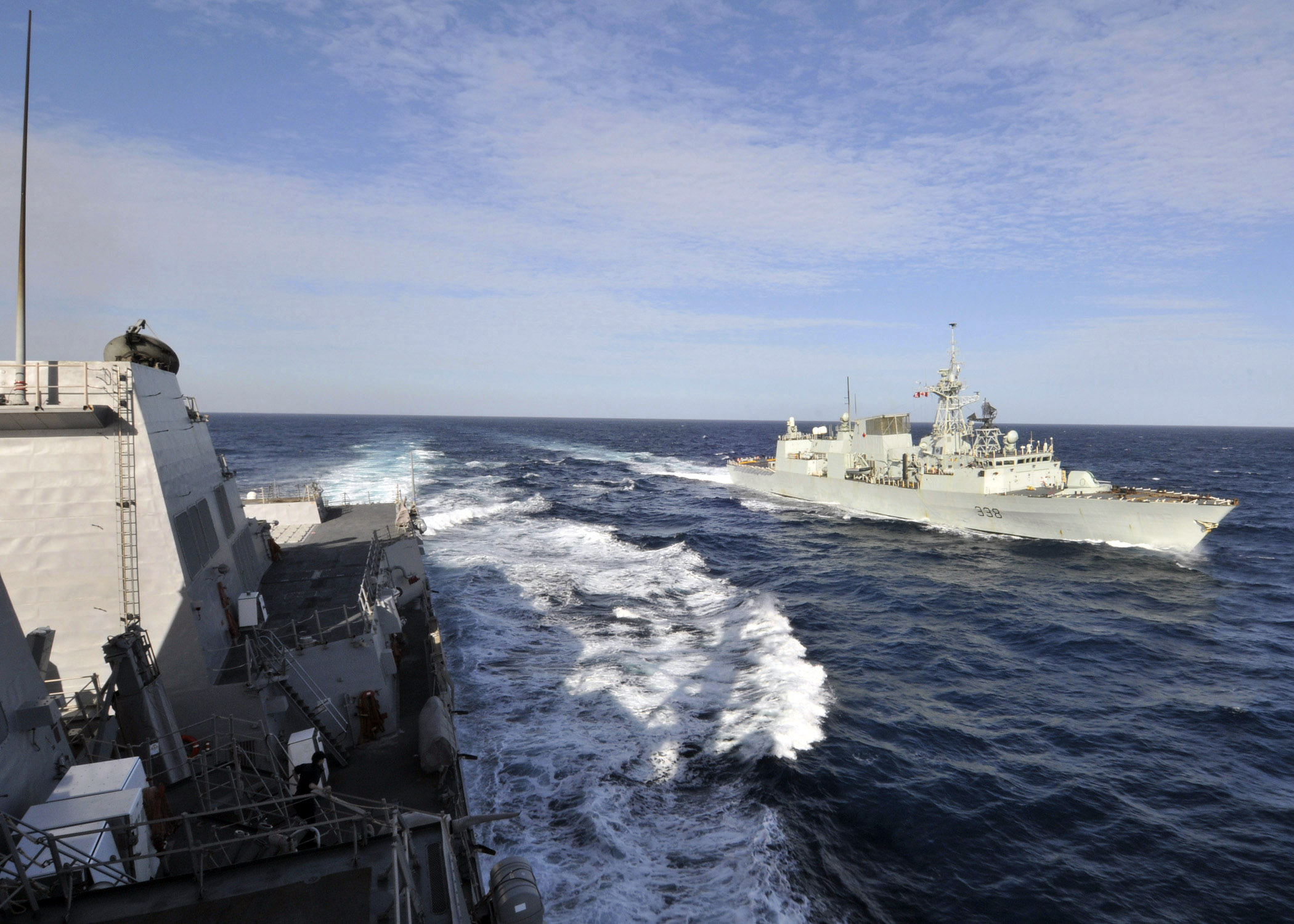 090702-N-2638R-002 PACIFIC OCEAN (July 2, 2009) The Canadian Navy Halifax class frigate HMCS Winnipeg (FFH-338) is underway alongside the guided-missile destroyer USS Mustin (DDG-89), during a leap frog training evolution designed to practice approaching ships for underway replenishments.